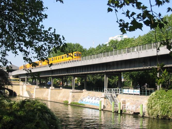 Landwehrkanal in Berlin-Kreuzberg, at Waterlooufer